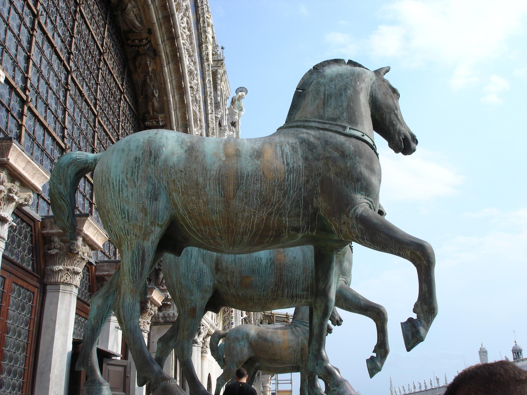 Quadriga of San Marco